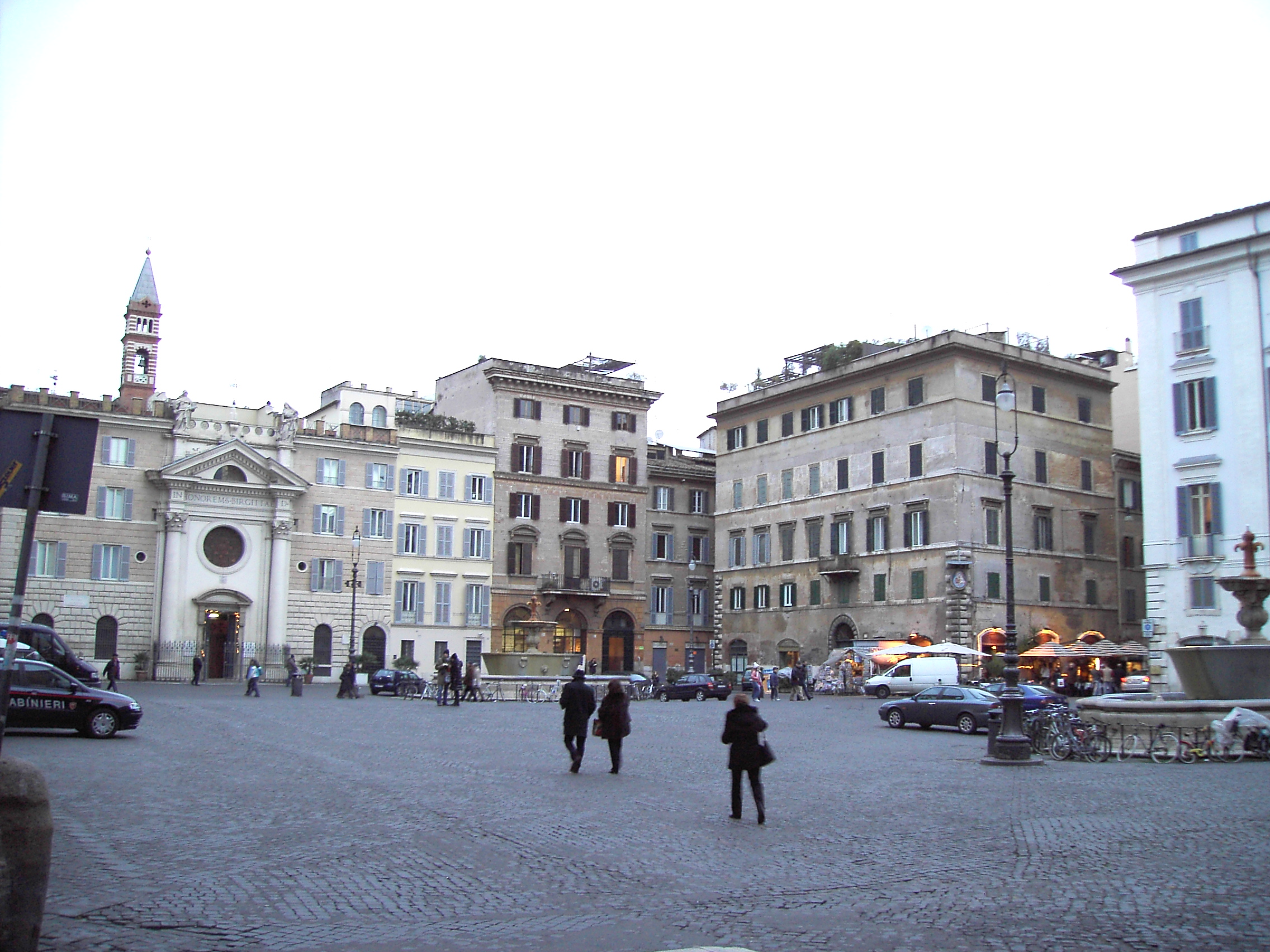 Piazza Farnese in Rome.